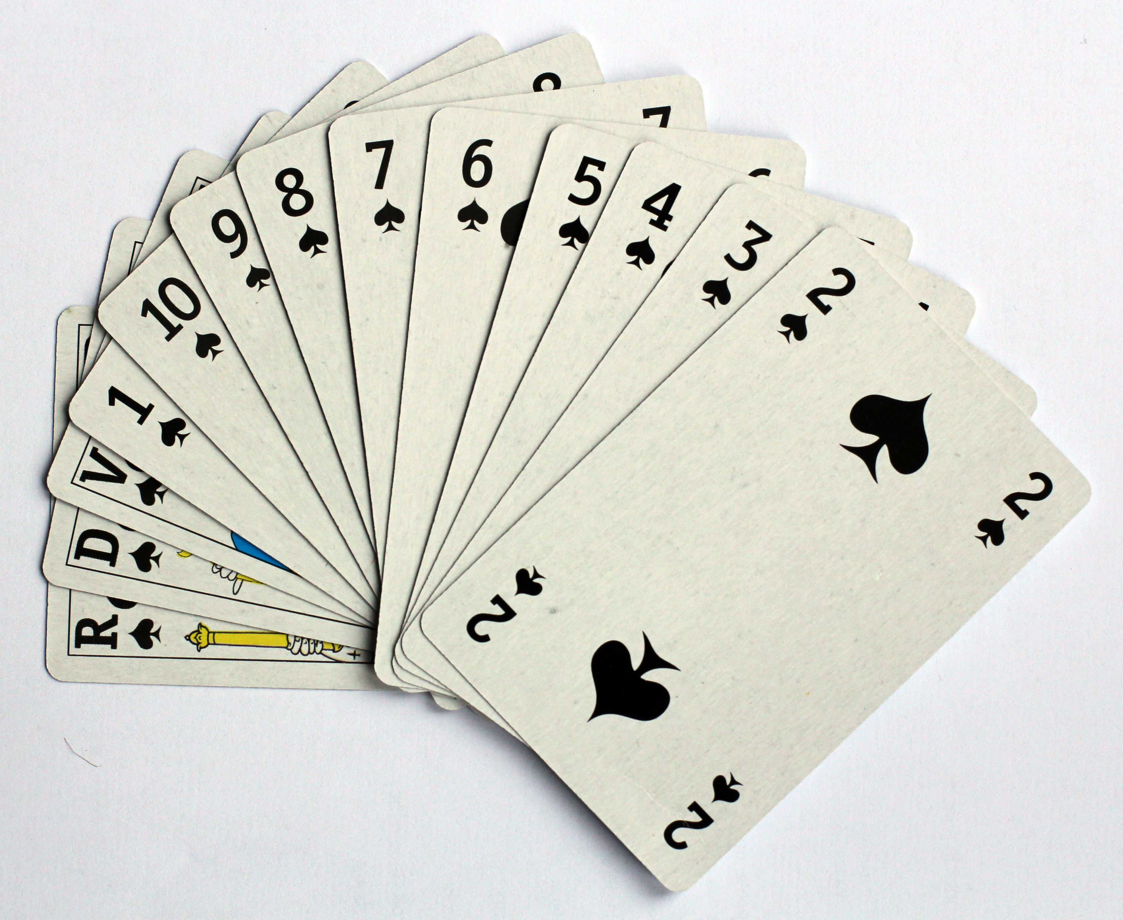 The suit of spades from a 52-card French-suited pack in the ranking used in the historical French game of Écarté